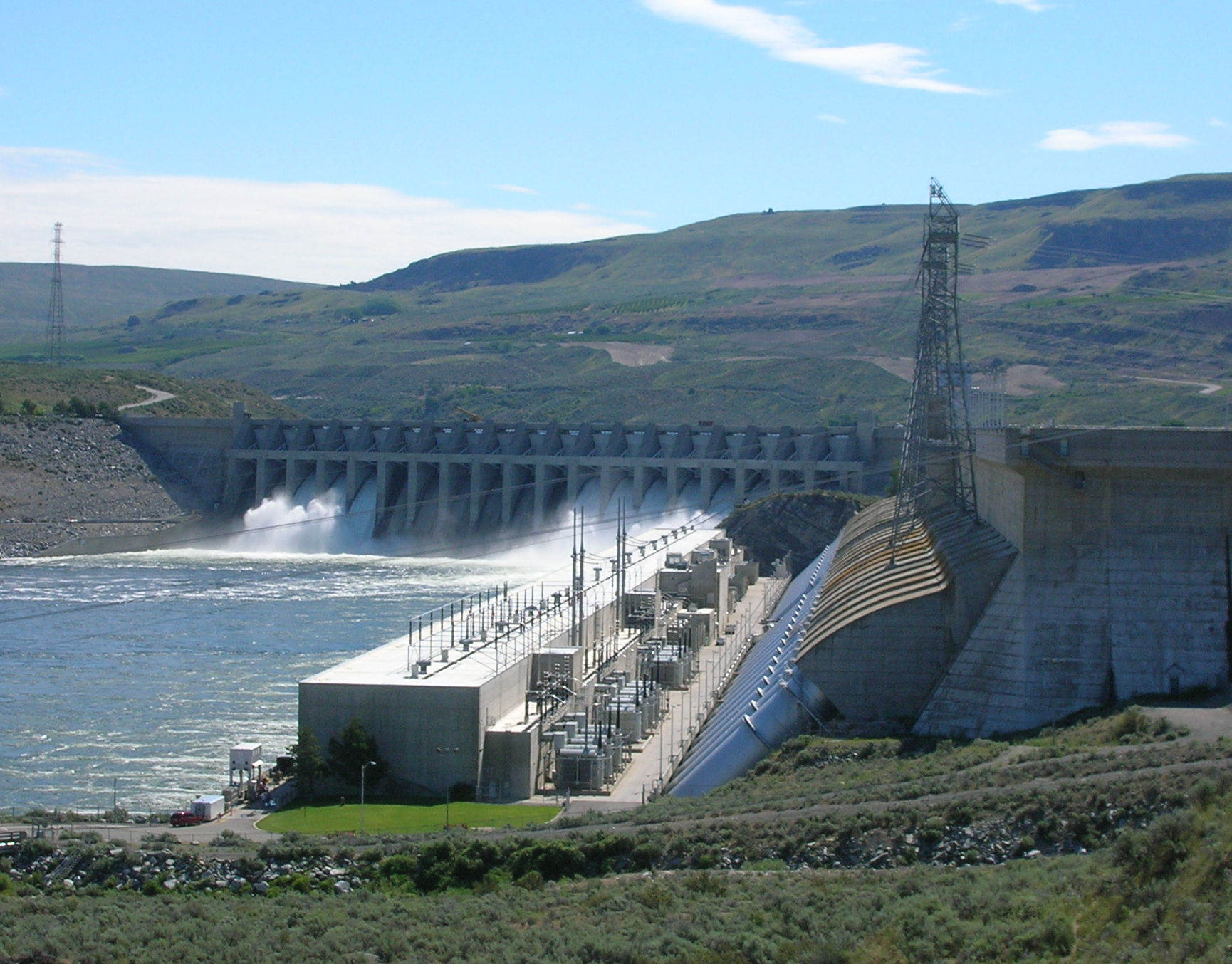 Chief Joseph Dam, Washington / 2006